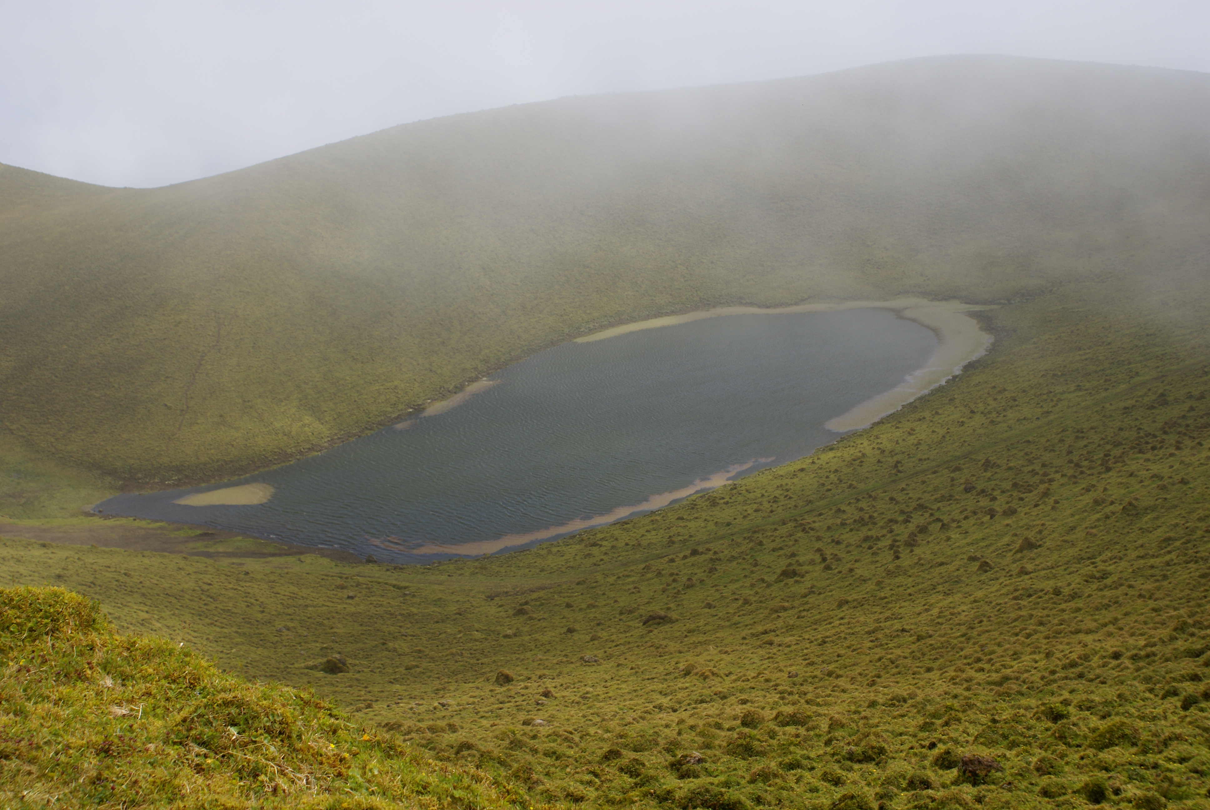 Lagoa Rosada, located in the municipality of Lajes do Pico, island of Pico, Azores (Portugal)